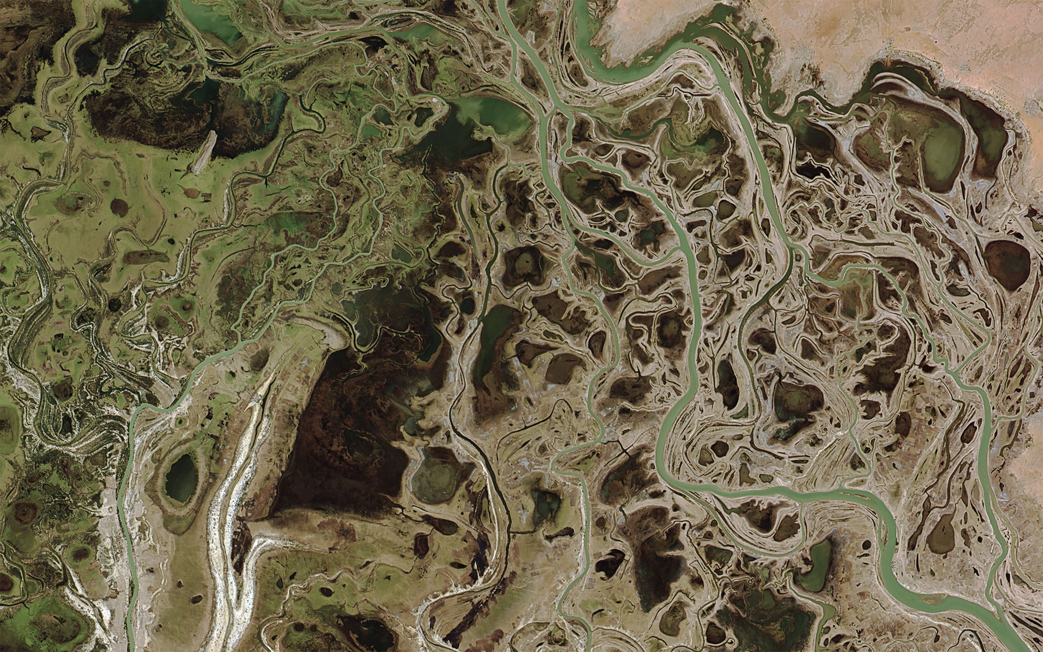 Niger River in northern Mopti region, Mali, as viewed by Hodoyoshi-1 satellite.